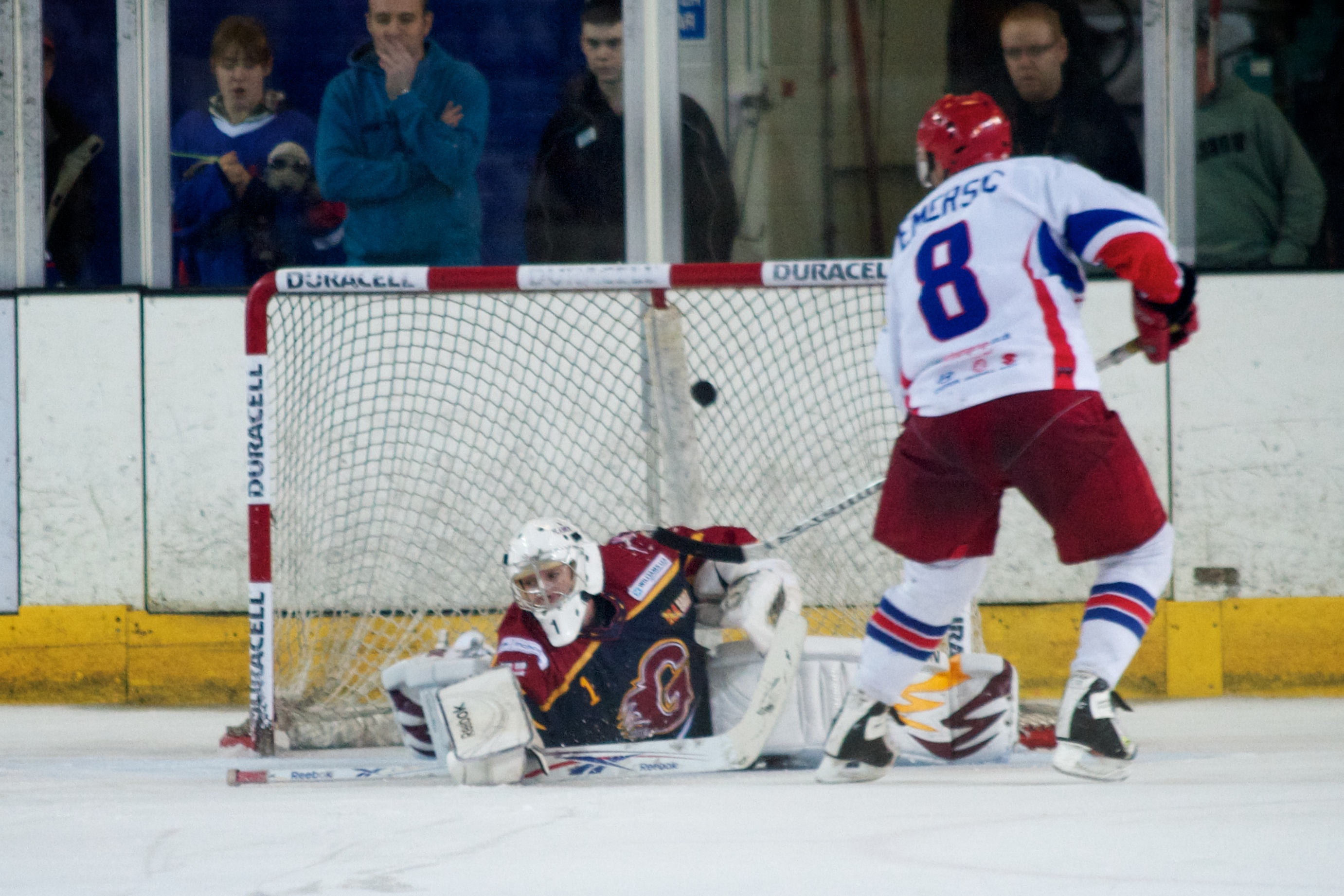 Emersic scores his overtime penalty shot to end the match, and the season.